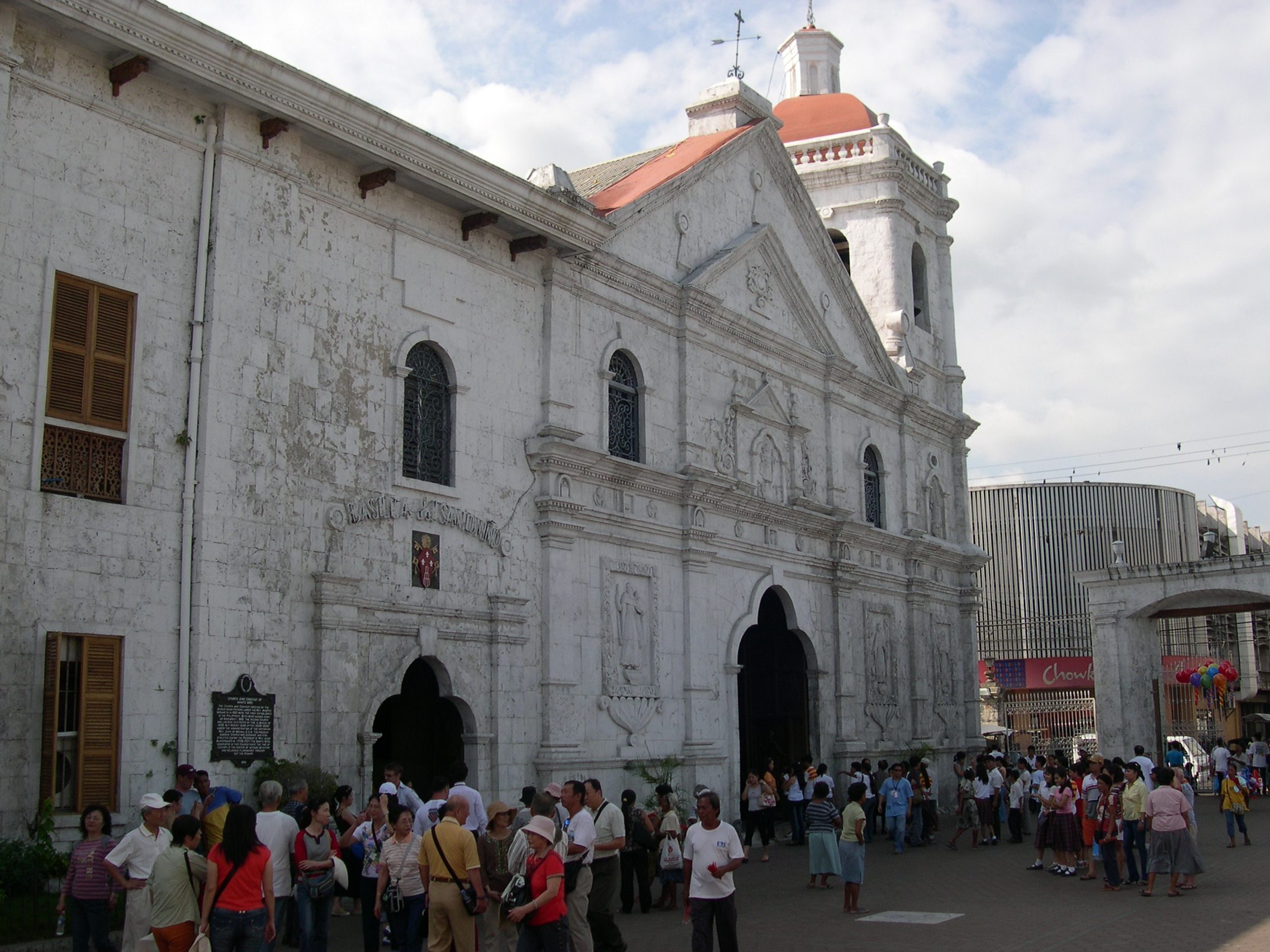 Basilica Minore del Santo Niño in Cebu City Picture taken by Magalhães on March 23 2006